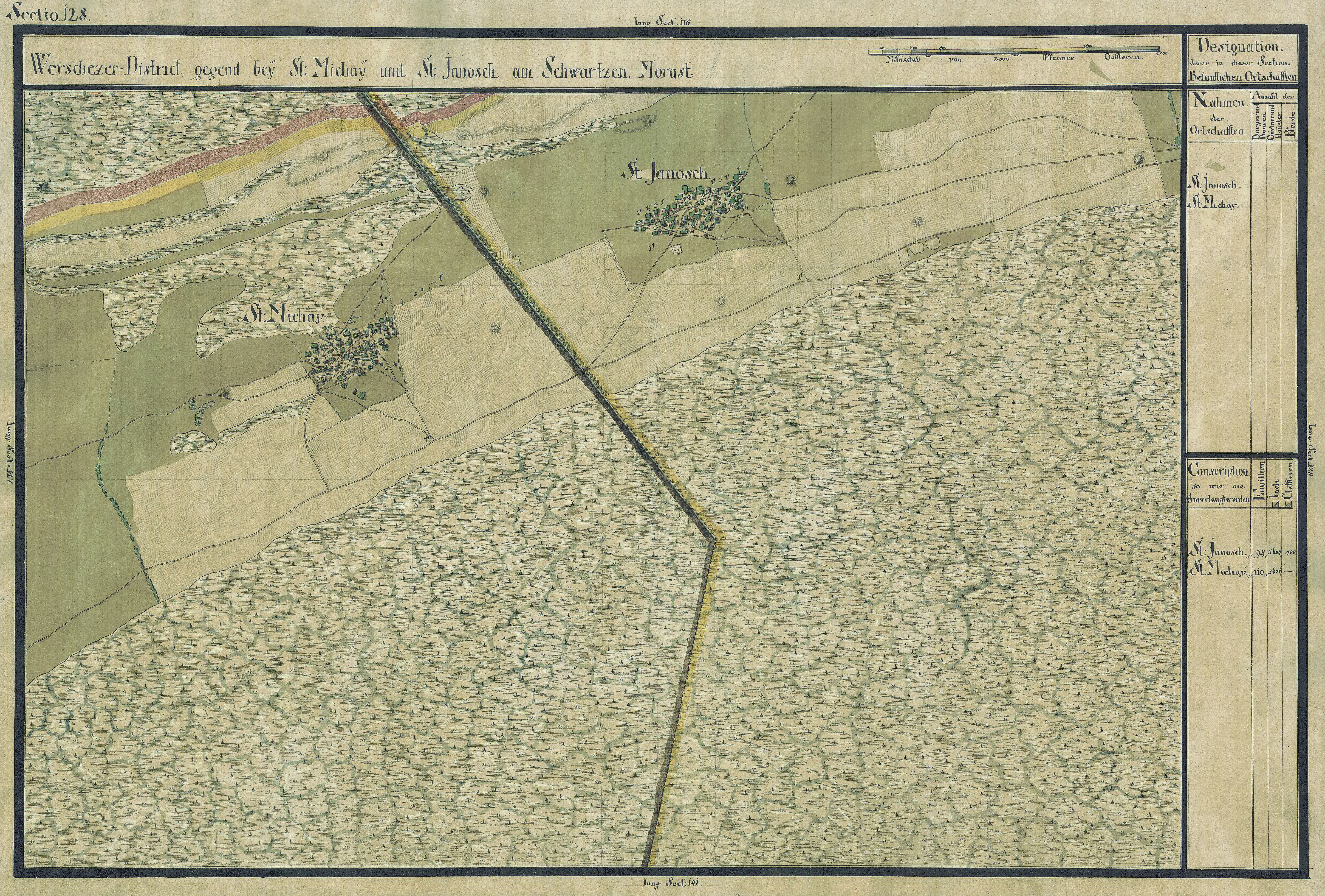 The Banat region in the cadastral maps: Josephinische Landesaufnahme, 1769-72. Josephinische Landaufnahme pg128